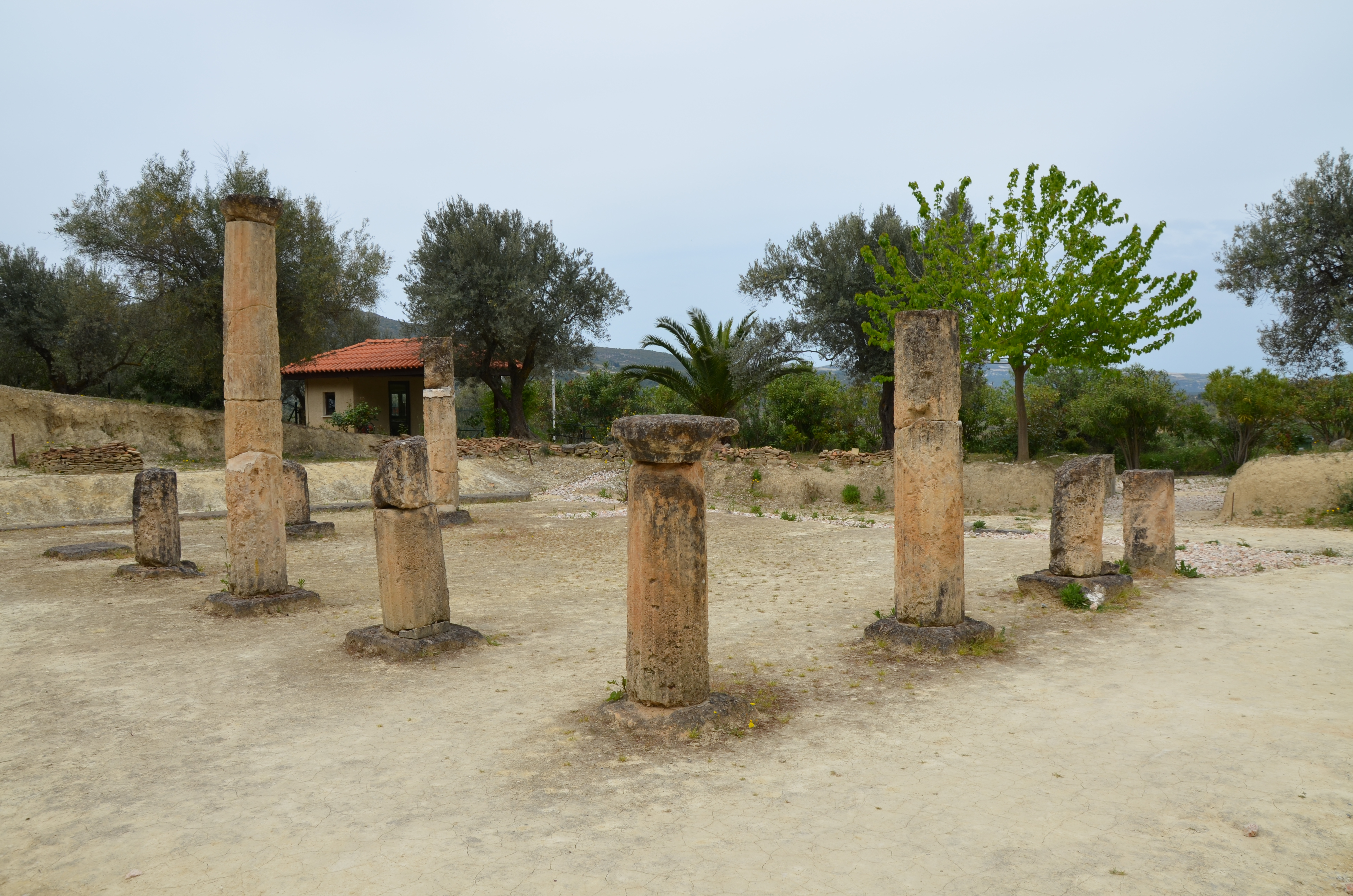 This structure is the small building to the west of the stadium outside of the west end of the tunnel where the athletes undressed and prepared for competition. This building allowed athletes to prepare not only their bodies by the application of oil, but also to separate themselves from the jeering/cheering crowds of spectators and focus on the upcoming competition. This building is positioned in such a way that one must pass through it to reach the Krypte Esodos, thus giving it the function of gateway to the stadium for contestants. When the time came, they would proceed through the Krypte Esodos into the stadium.